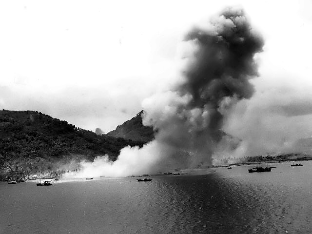 Japanese Naval Base, Dublon Island, under bombing attack by carrier- based planes. Low aerial showing small ships anchored in harbor and smoke from bombing of shore installations. April 29-30, 1944.